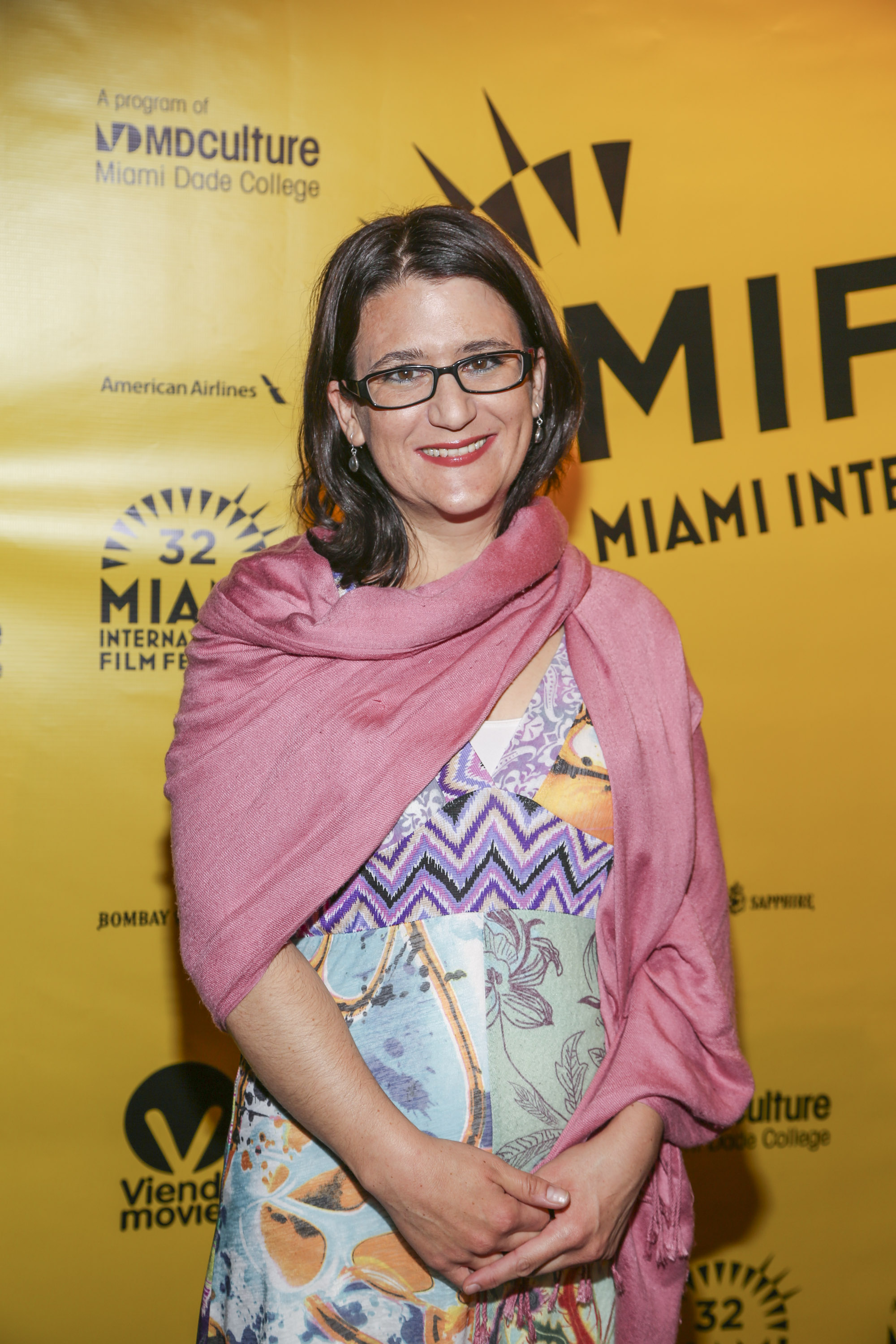 Director Mariana Chenillo at MIFFecito Opening Night Film BEHAVIOR (Conducta) at MDC's Tower Theater on October 16, 2014